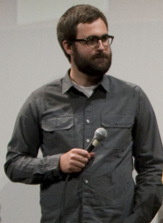 Photo by Teodora Erbes